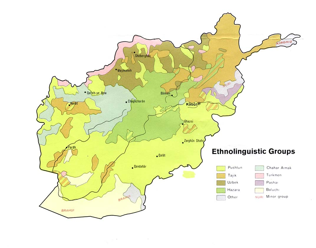 Ethnolinguistic groups of Afghanistan in 1972